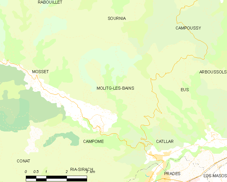 Map of French municipality